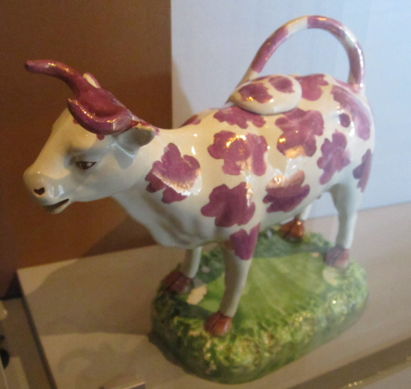 Cow creamjug, Walker Art Gallery, Liverpool, England. Made around 1820-1840. Earthenware, possibly Cambrian Pottery, Swansea.